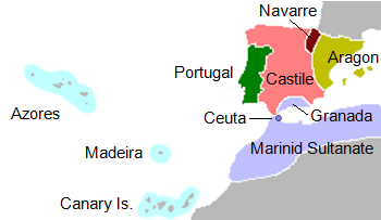 Portugal and environs in 1415.